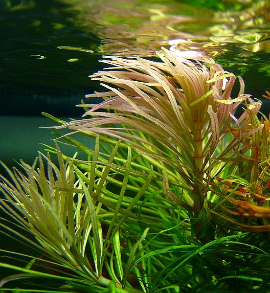 Pogostemon stellatus, formerly called Eusteralis stellata, growing in an aquarium.